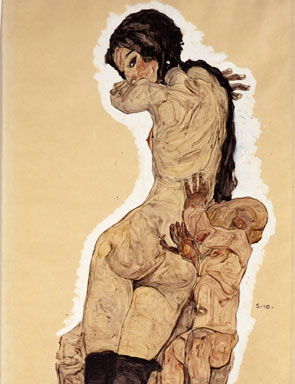 Woman with Homunculus by Egon Schiele, 1910.